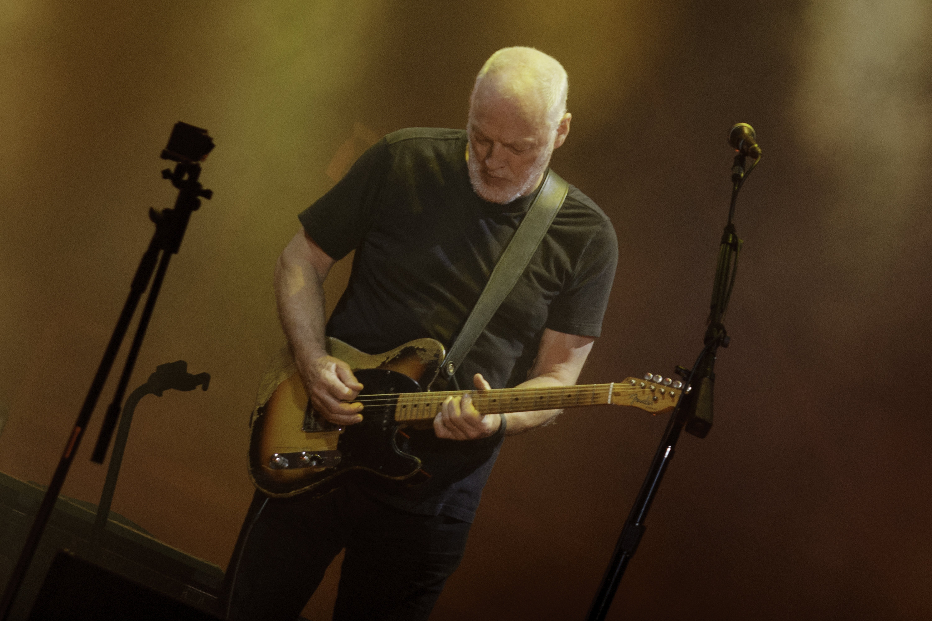 David Gilmour's 70,000 fans gather for his first ever concert in Buenos Aires Hipódormo de San Isidrio, Argentina. Camera: Canon EOS 5D Mark II 3 'ISO: 1600'